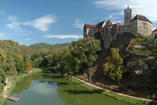 Hrad Loket